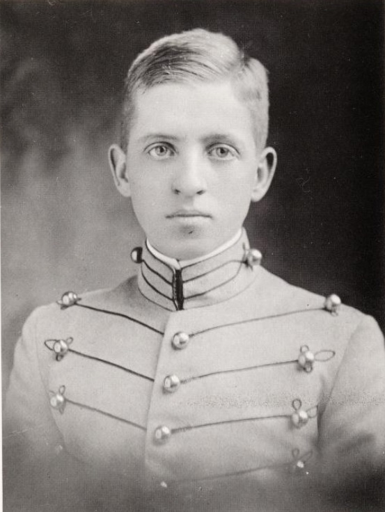 Future Lieut. Gen. William K. Harrison Jr., U.S. Army as USMA Cadet in 1913. He later represented United Nations Command during the truce talks on Panmujom and signed Korean Armistice Agreement on July 27, 1953.